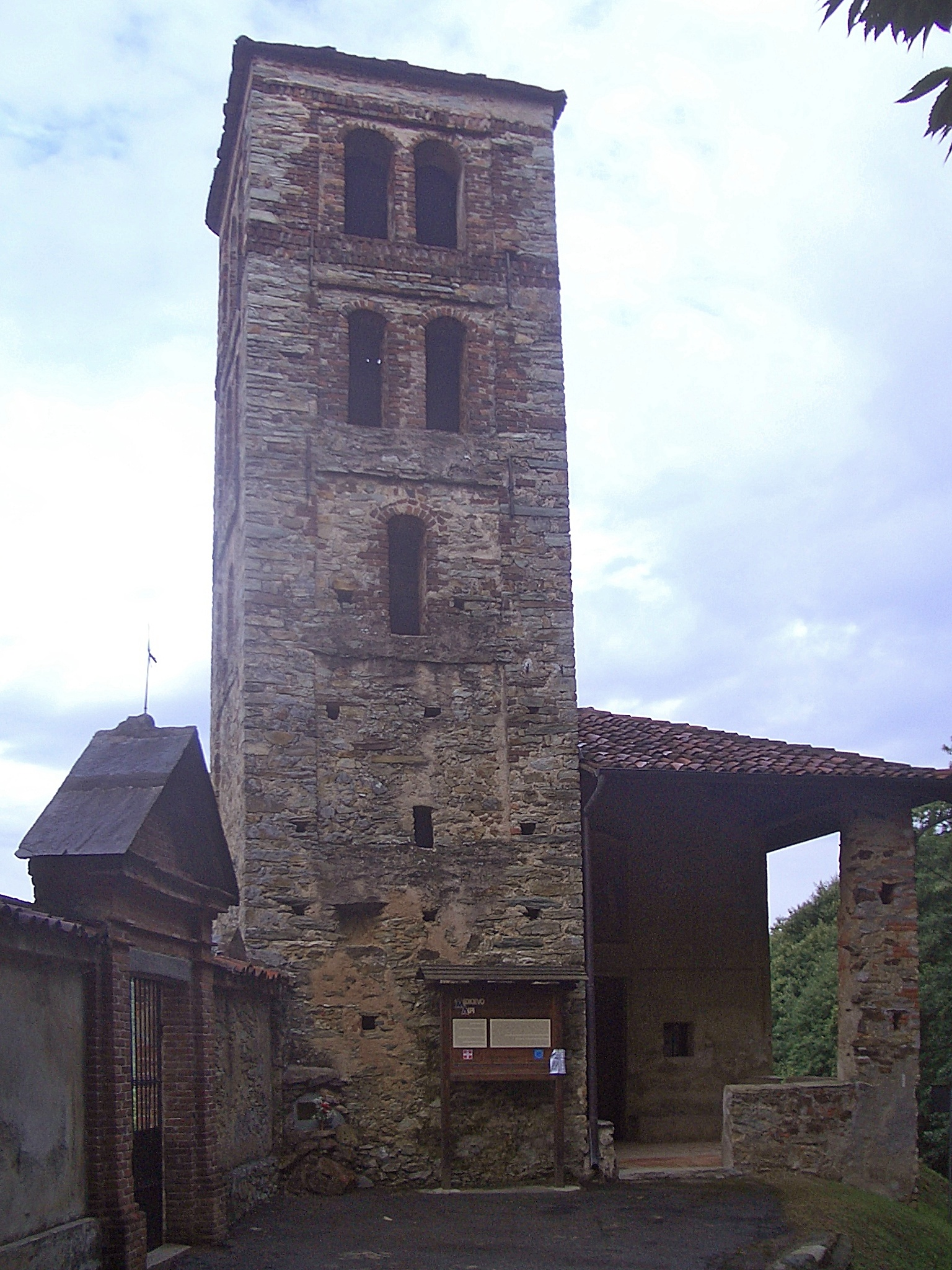 Prascorsano, the old chemetery church (XII century) dedicated to "Madonna del Carmine"